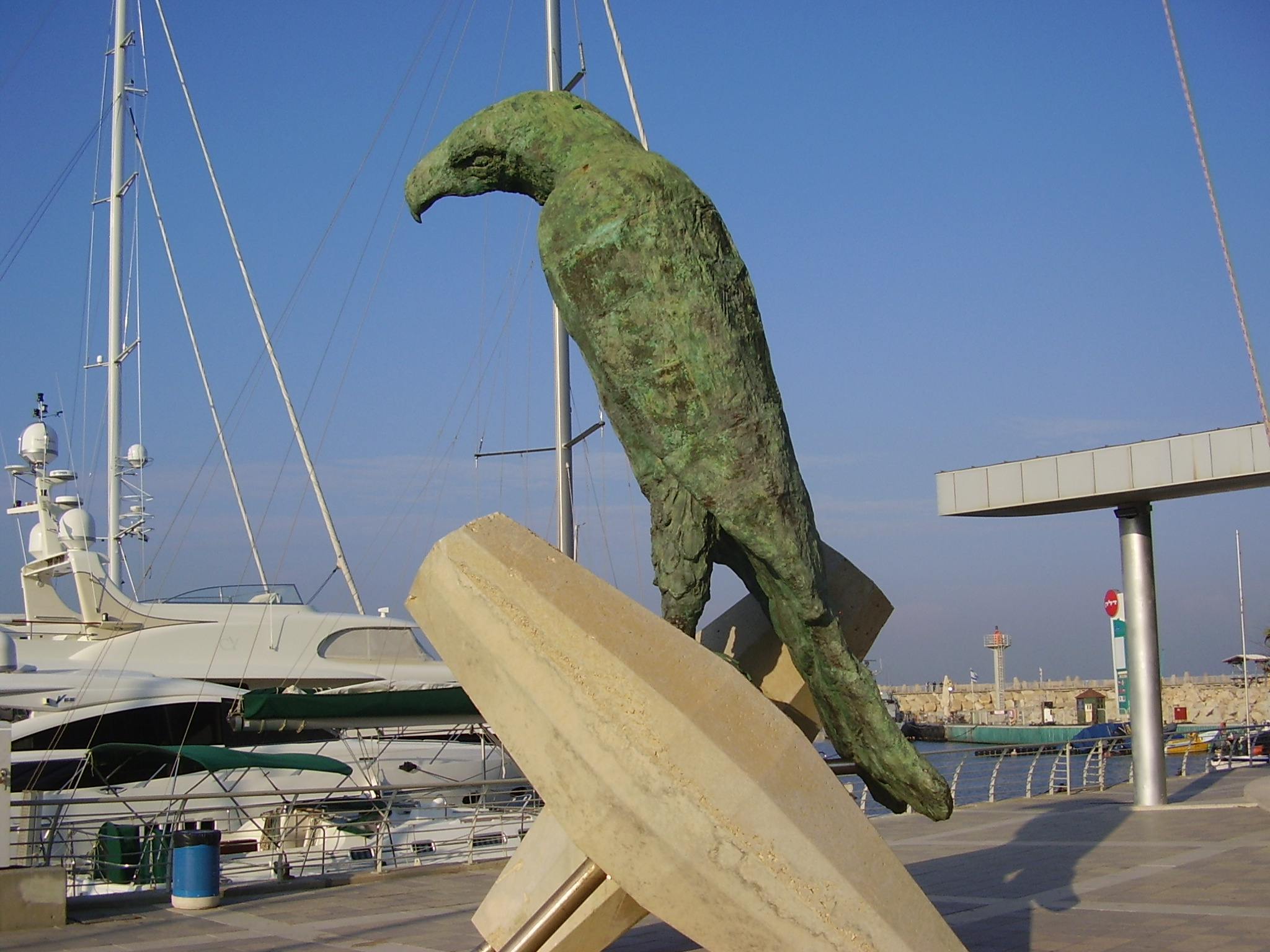 \"eagle\" in herzliya marina